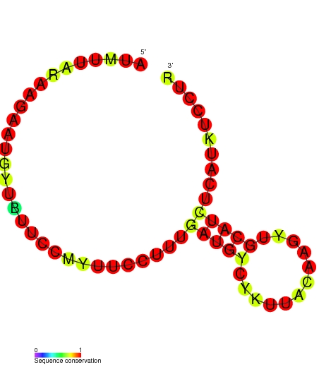 Secondary structure and sequence conservation image for KCNQ1DN non coding RNA (RF01961). Nucleotide colouring indicates sequence conservation between the members of this family.